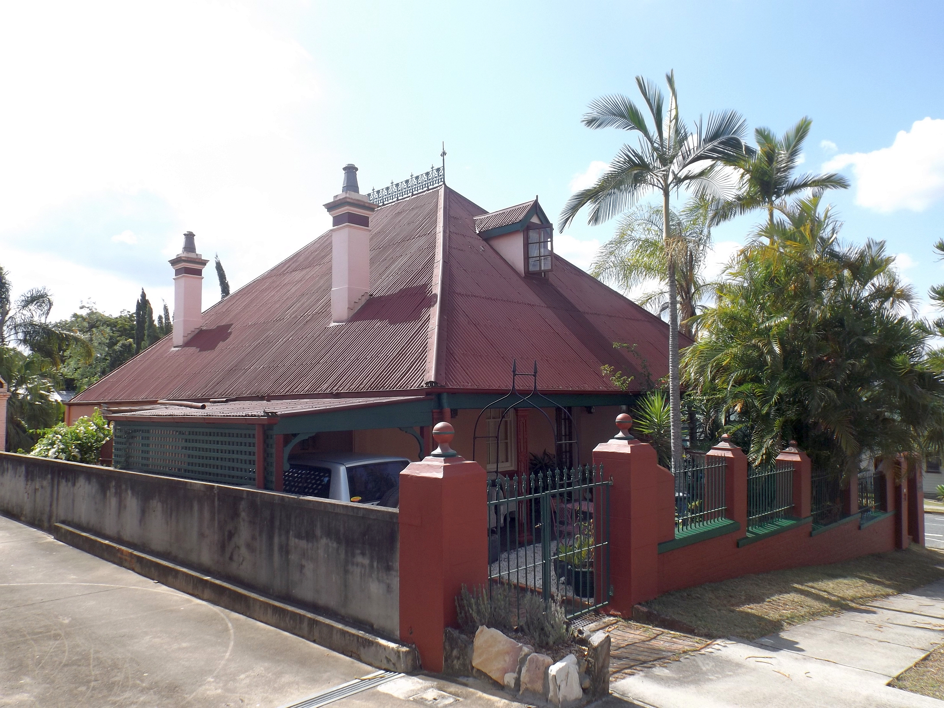 Photo of Brickstone residence from Murphy Street, Ipswich, Queensland, Australia.